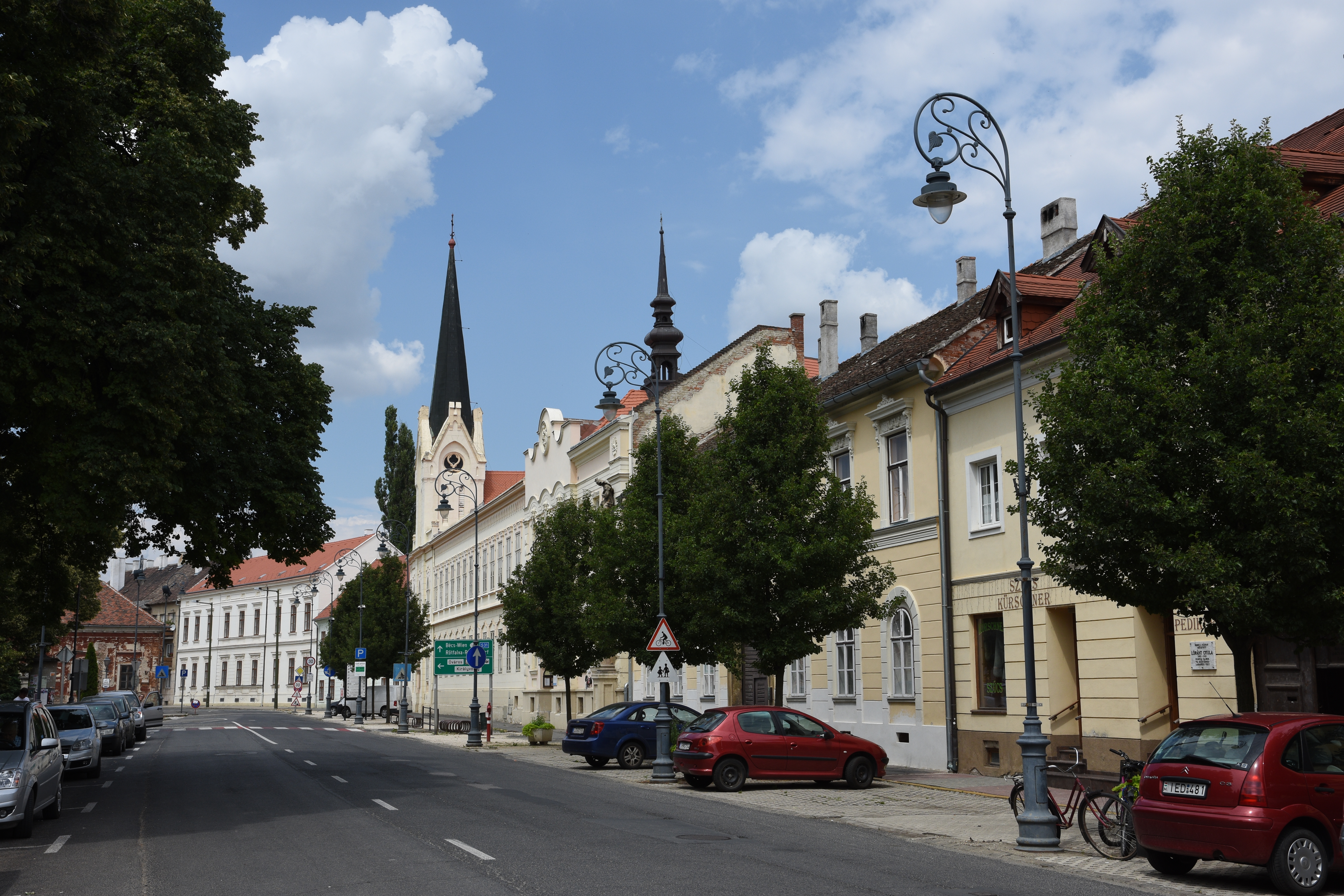 Kőszeg